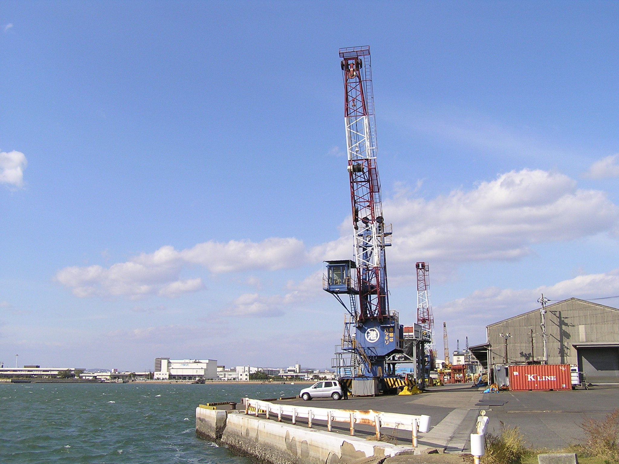 Fukushima the district of Okayama port